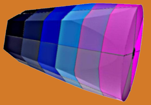 an AGATA prototype segmented detector